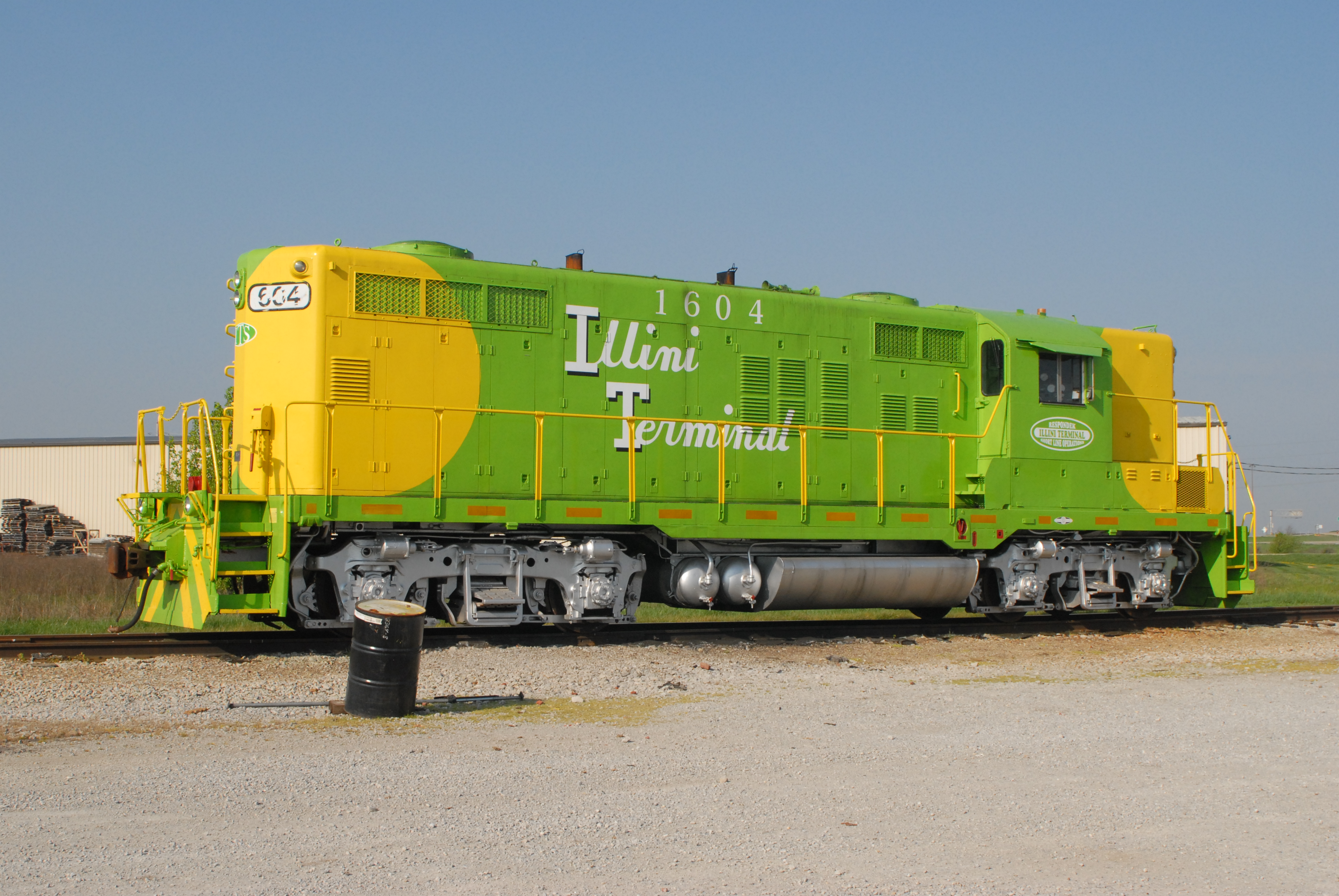 Illini Terminal 1604 rests in Litchfield, IL. Come tomorrow it will be back to work switching the industries.